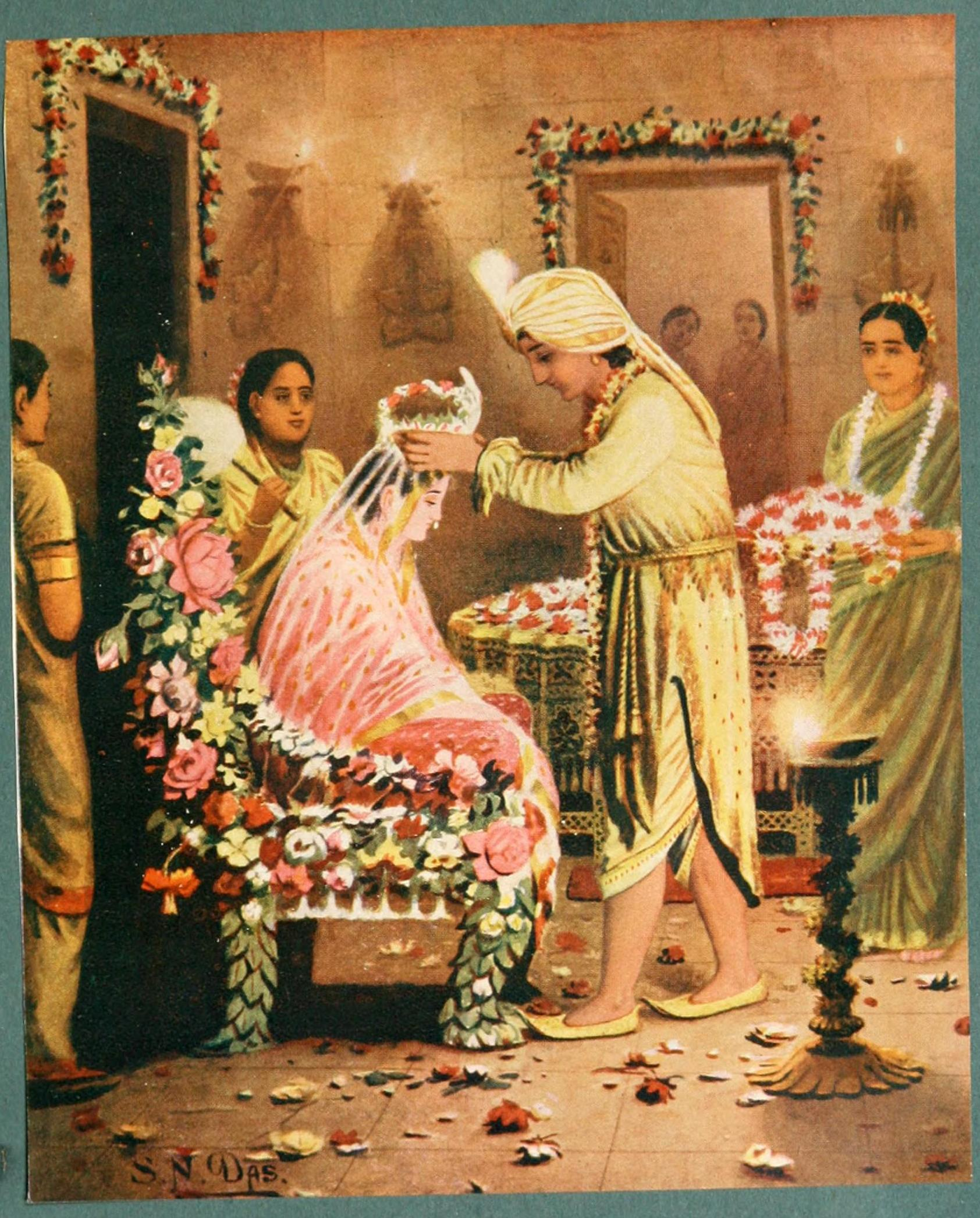 Nine ideal Indian women (1919) Author: Sunity Devee, Maharanee Publisher: Calcutta : Thacker, Spink & Co. Possible copyright status: NOT_IN_COPYRIGHT Language: English Call number: SRLF_UCLA:LAGE-3264077 Digitizing sponsor: Internet Archive Book contributor: University of California Libraries Collection: cdl; americana Scanfactors: 2 Full catalog record: MARCXML [Open Library icon]This book has an editable web page on Open Library.